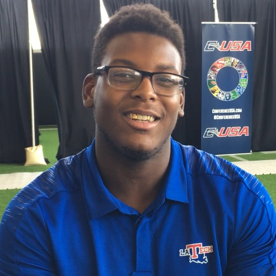 Jaylon Ferguson, defensive end for the Louisiana Tech Bulldogs football team, at the 2018 C-USA Kickoff in Frisco, Texas.